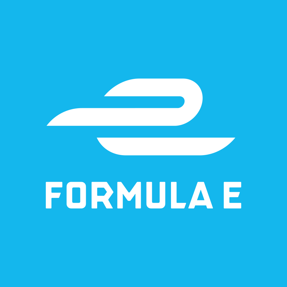 Official logo for the FIA Formula E Championship, in use from Season 4 (2017-18) onwards